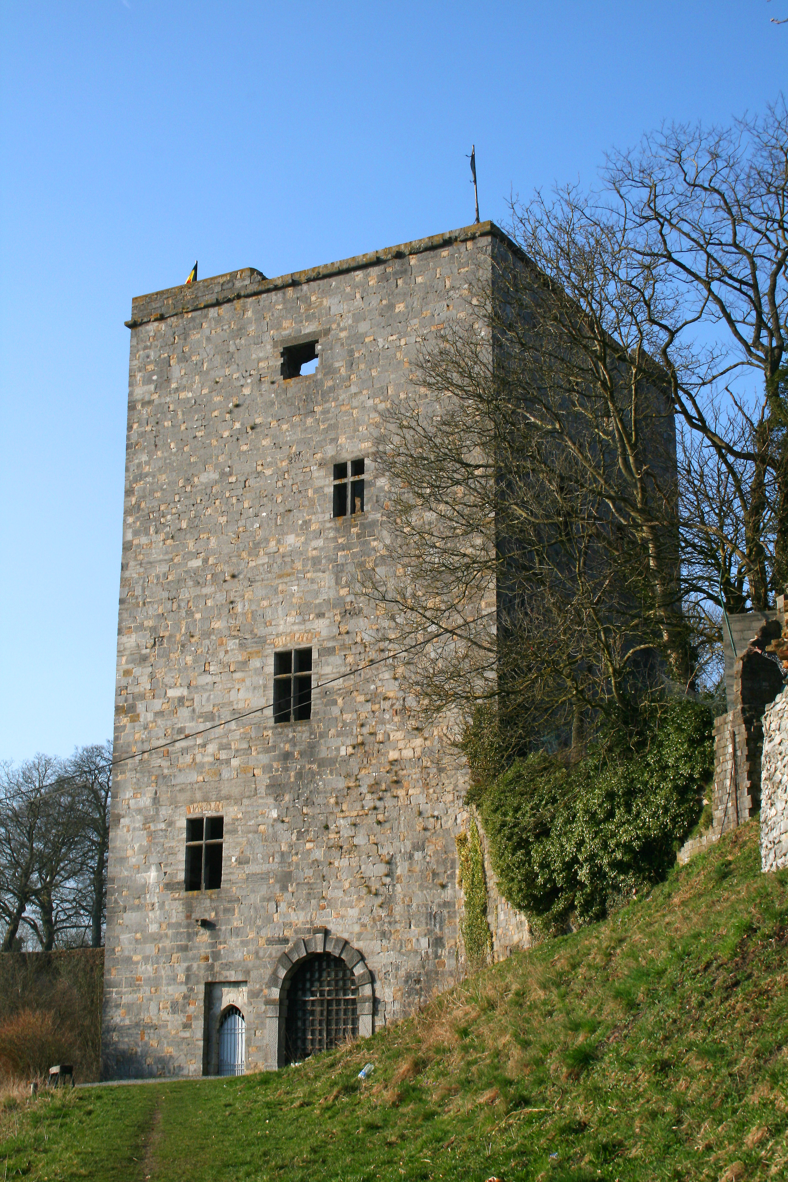 Beaumont, Belgium, the "Tour Salamandre" (XIth century).